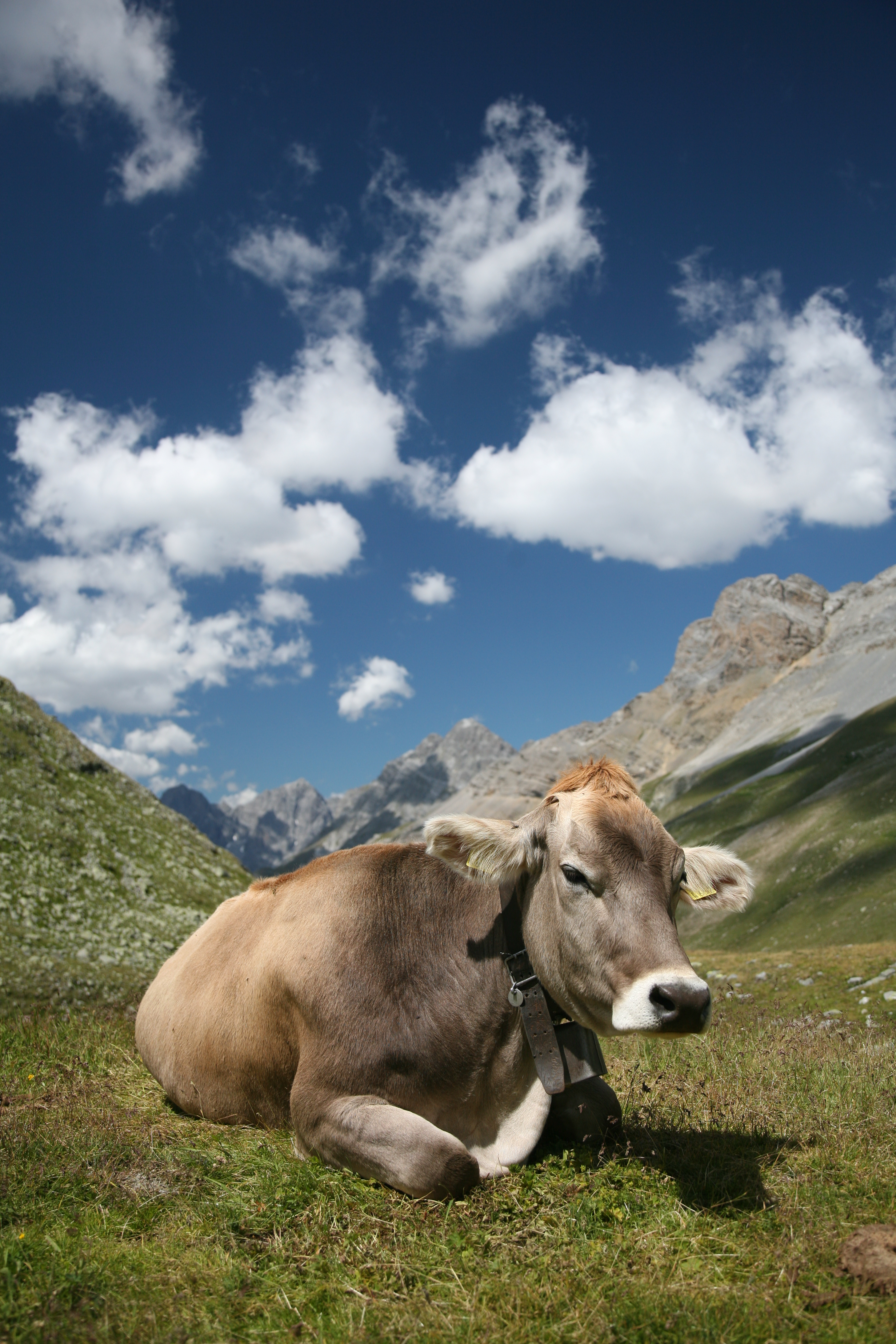 Cow (Swiss Braunvieh breed), below Fuorcla Sesvenna in the Engadin, Switzerland.